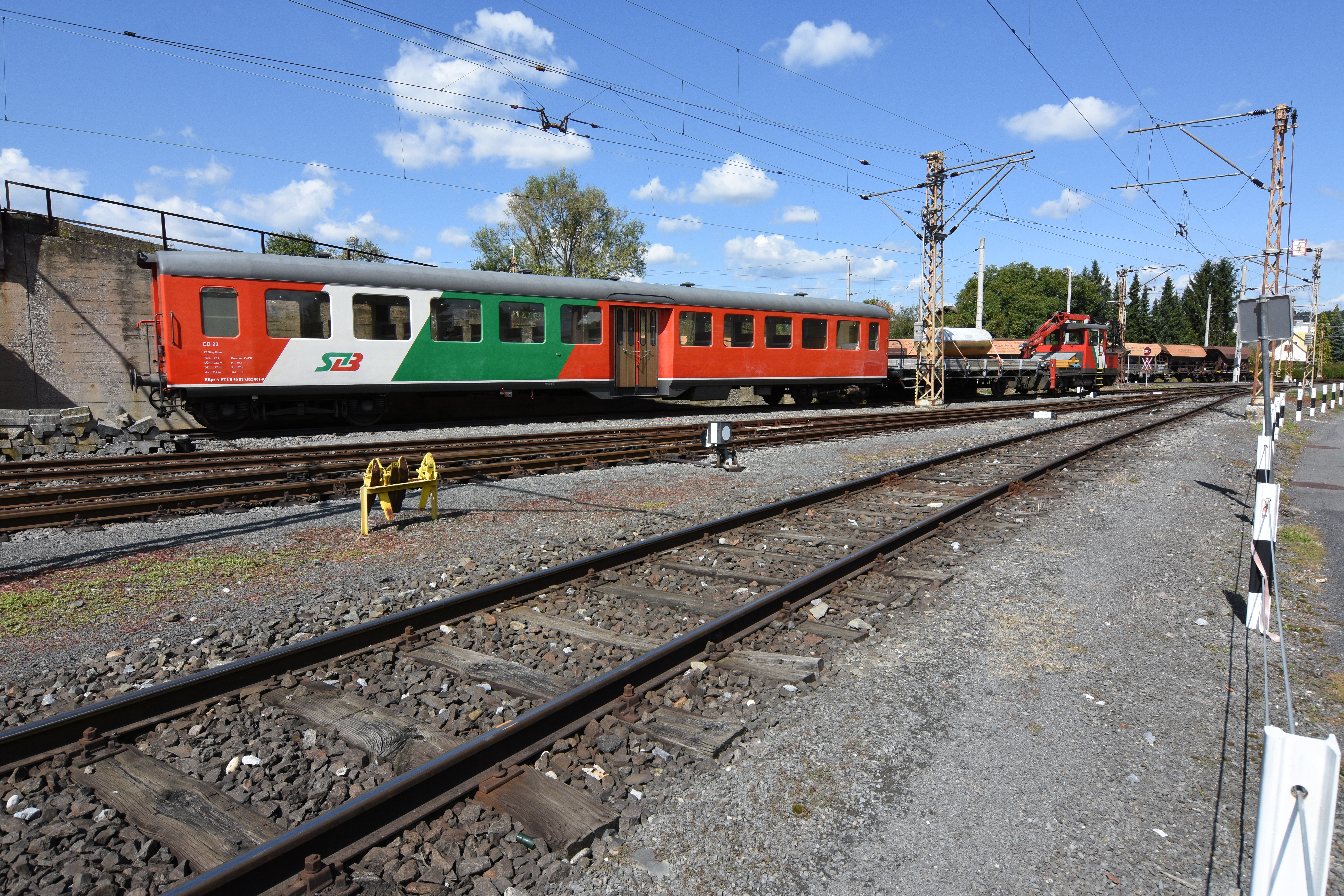 Feldbach–Bad Gleichenberg railway line